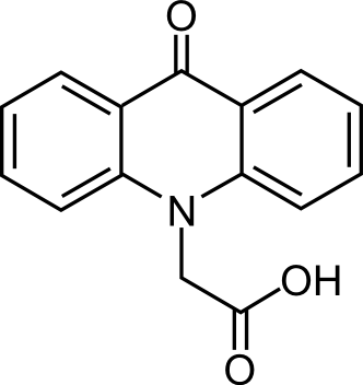 9-Oxo-10(9H)-acridineacetic acid